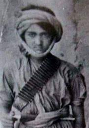 Mazrak Khan Zadran (Pashto: زمرک خان ځدرا; fl. 1900s – 1972) was a Zadran chieftain who fought against the Afghan government during the Afghan tribal revolts of 1944–1947. Picture taken 1925 or earlier.